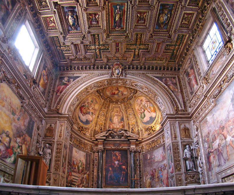 Church of Saint Susanna, Rome, Lazio, Italy.